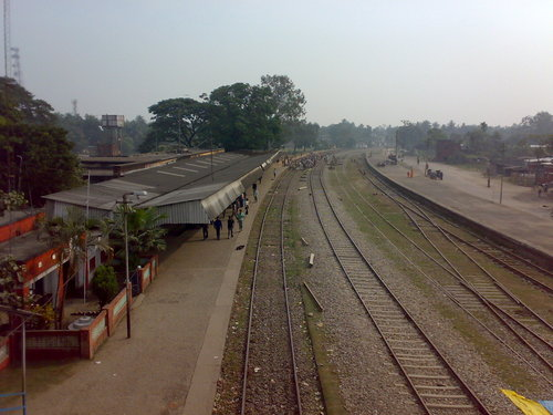 Jalpaiguri